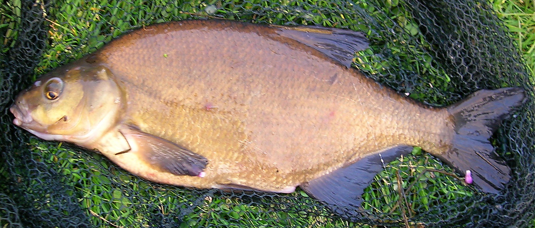 Bronze coloured Abramis brama from the Valleikanaal, Utrecht the Netherlands